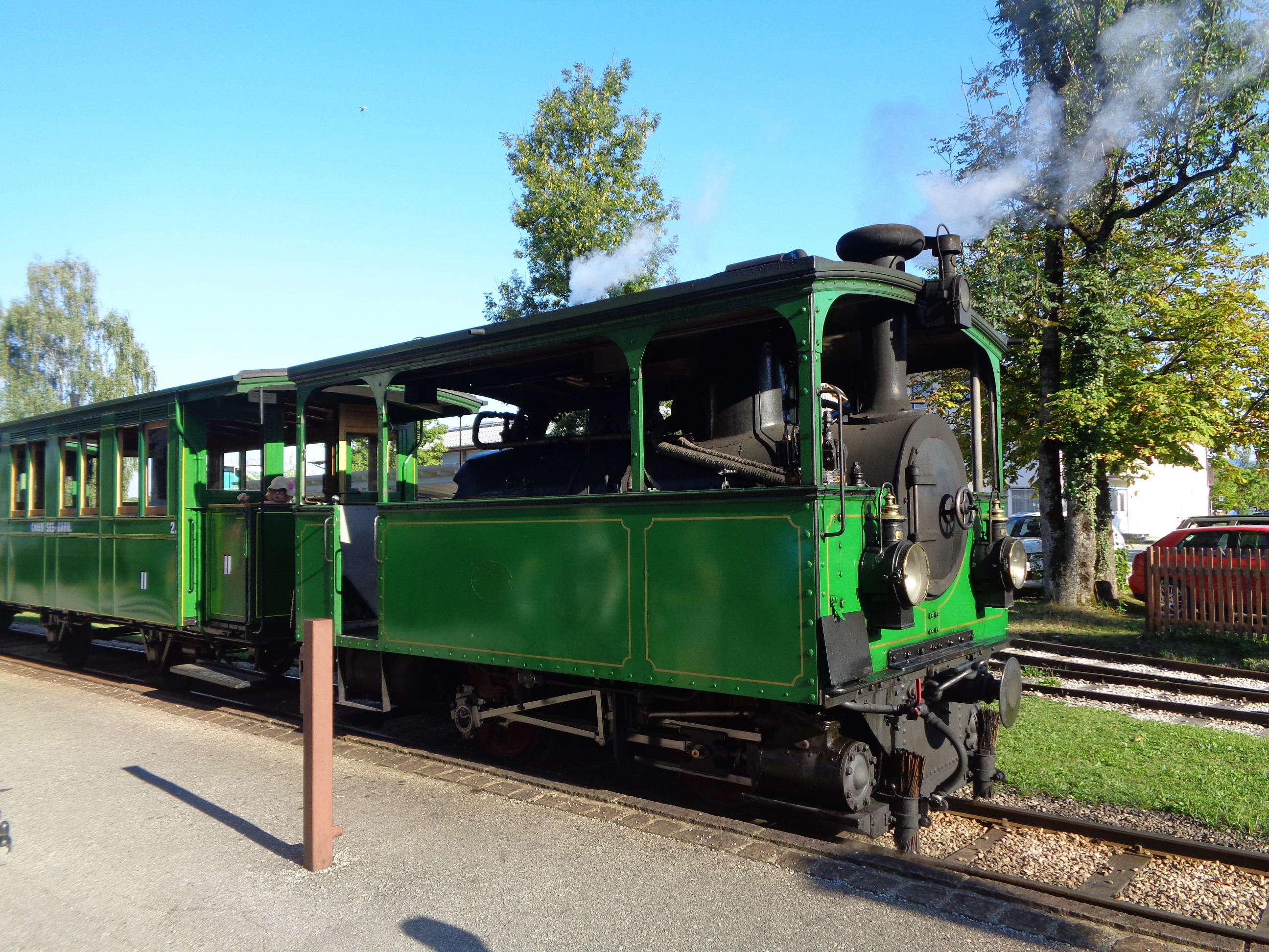 Narrow gauge steam locomotive of the Chiemsee-Railway at Prien harbour, Bavaria, Germany